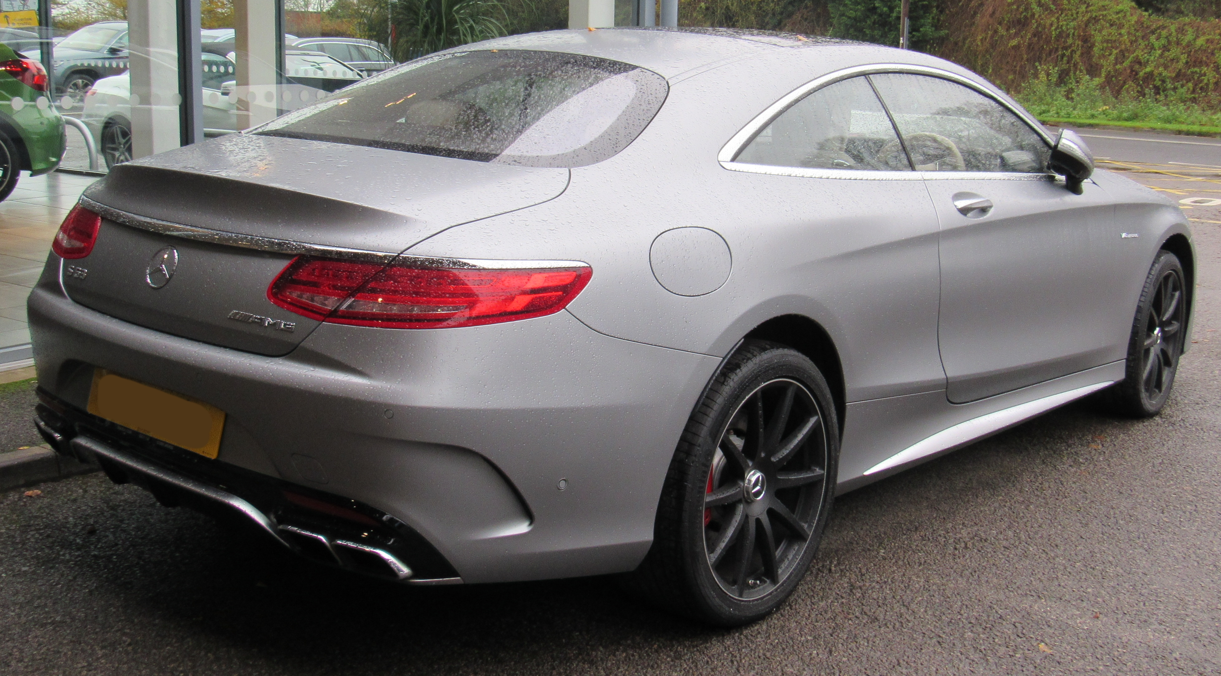 2015 Mercedes-Benz S63 AMG Coupe Automatic 5.5 Rear Taken in Stratford-upon-Avon